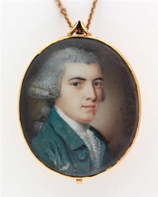 Benjamin Harrison V (1726–1791)